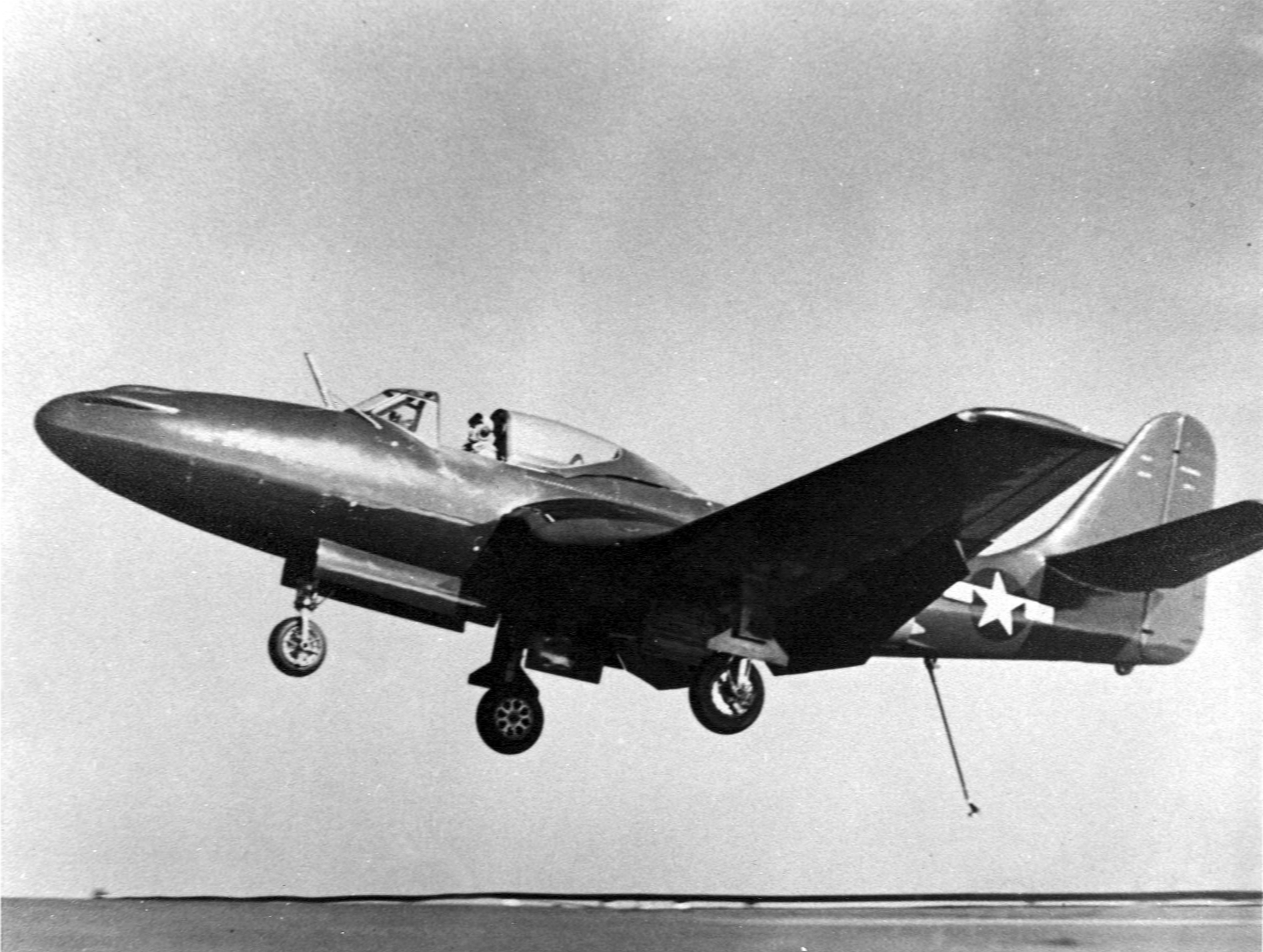 On 21 July 1946, Lt.Cmdr. James Davidson, USN, conducted the first trials of the McDonnell XFD-1 Phantom fighter aboard the aircraft carrier USS Franklin D. Roosevelt (CVB-42). He made several landings and takeoffs without catapult. In 1947, the company letter of McDonnell was changed by the U.S. Navy from "D" to "H" and the "FD" consequently became the "FH" fighter.